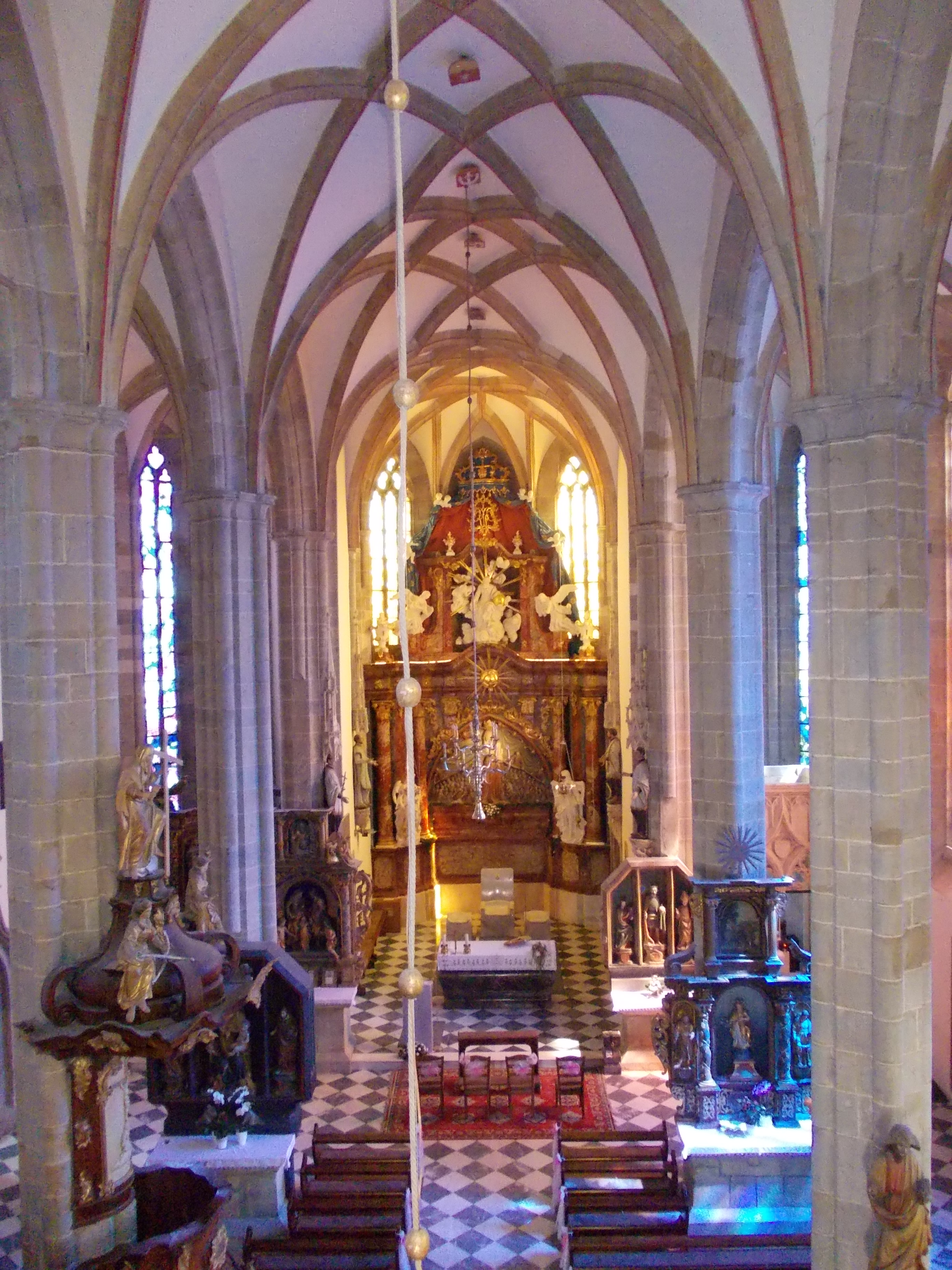 Basilica of the Virgin Mary Protectress jacketed, Ptujska Gora